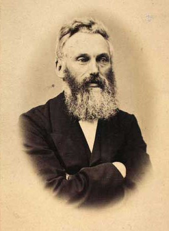 Cornelius Appel (1821-1901), Danish priest and educator